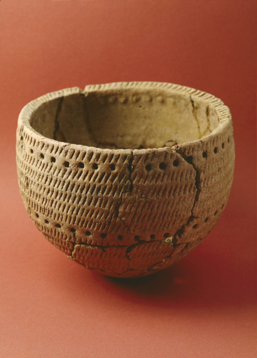 Comb ceramic pottery from Taipalsaari, Finland